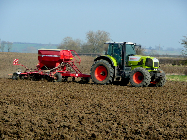 Crop sowing time, near to Woolscott, Warwickshire, Great Britain. This Claas tractor (with a Simba/Horsch seed drill) is going in a widening spiral around a pond in the field east of the Woolscott road.